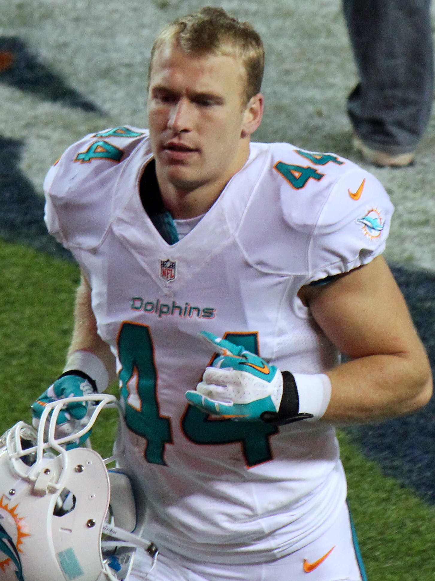 Jordan Kovacs, a player on the National Football League.